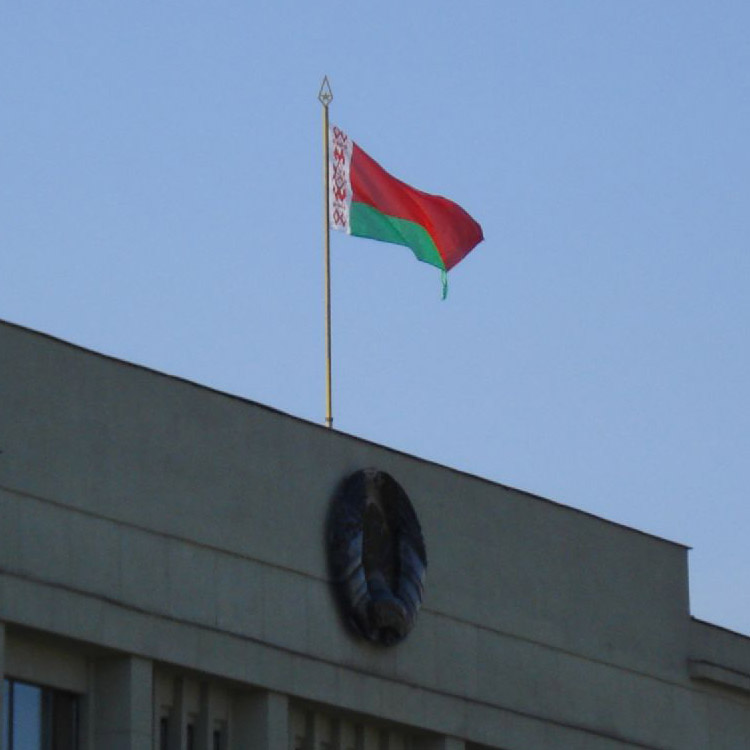 The cropped version of :Image:Belarusian flag Minsk.jpg.